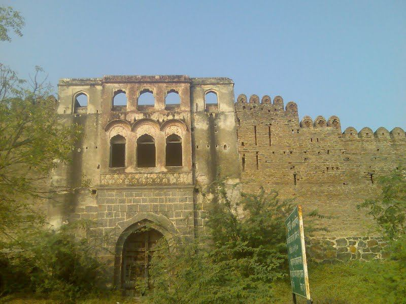 kavathe yamai